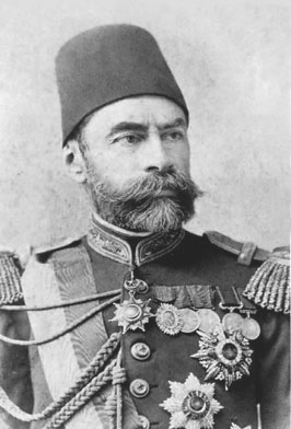 Ahmed Muhtar Pasha prob during the Russo Turkish War